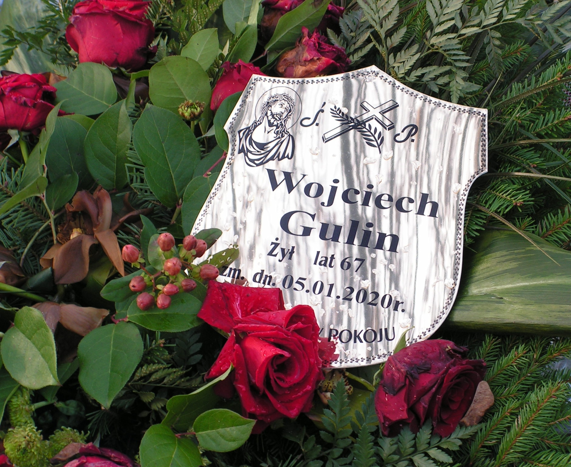 Plaque of Wojciech Gulin (1952-2020) on his grave after funeral on Communal Cemetery in Włocławek.